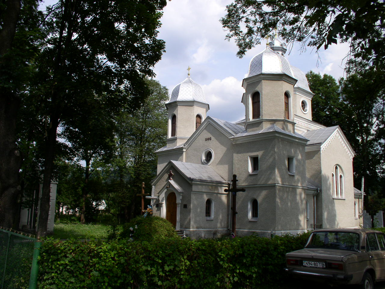 Church. Skole, Ukraine.